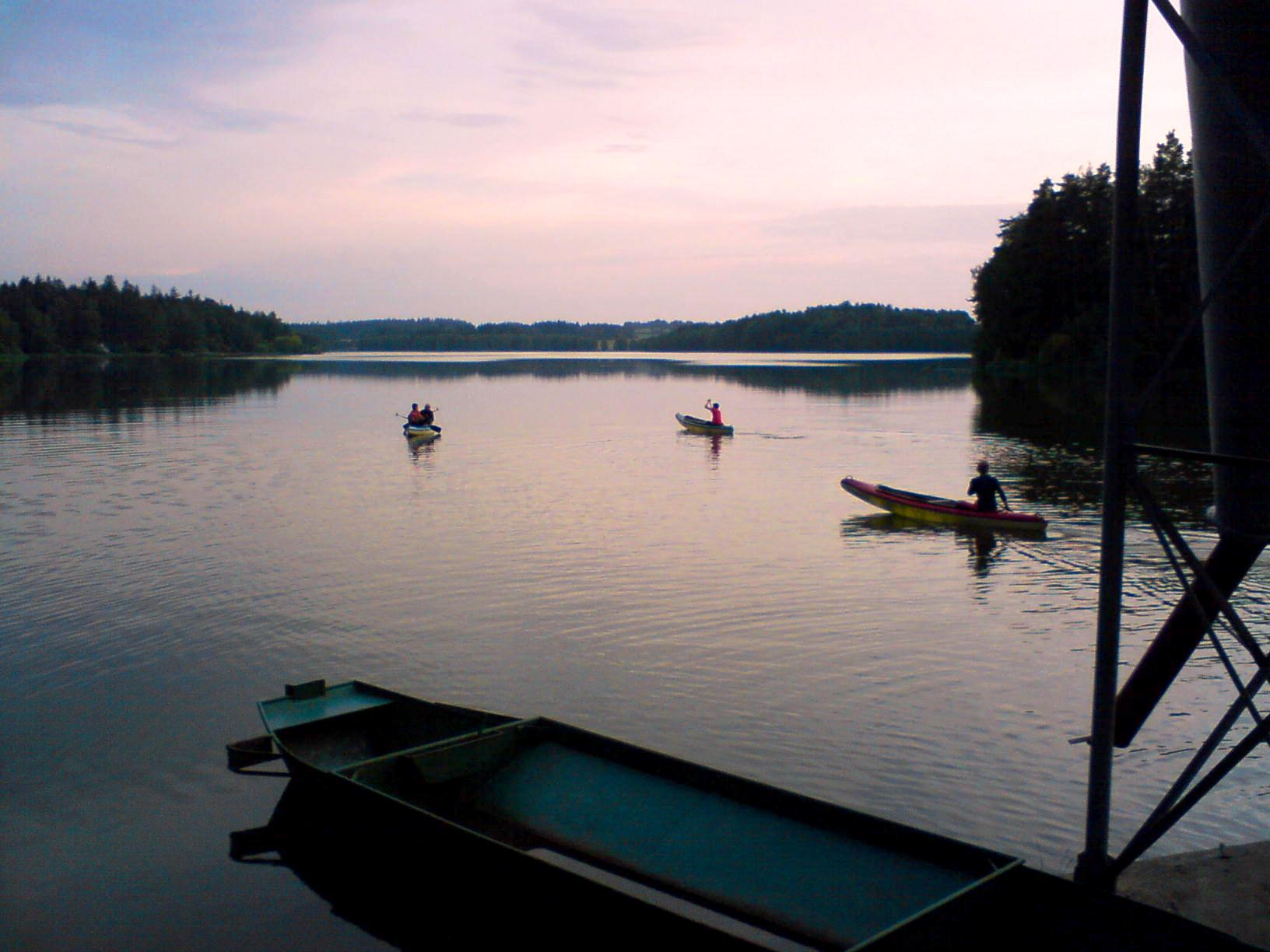 Pěněnský pond near the village of Horní Pěna, Czech rep.